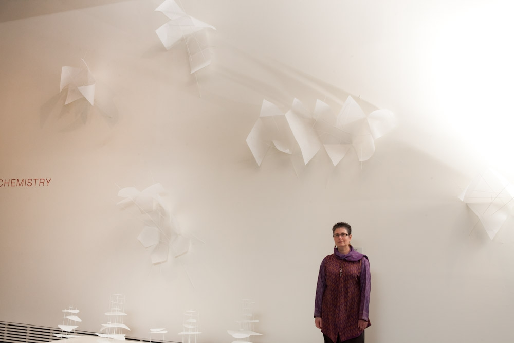 Photograph of Rebecca Kamen, artist, with her work, "The Platonic Solids", at the opening for the 2011 Elemental Matters exhibit at the Chemical Heritage Foundation, Philadelphia, PA, USA, 4 February 2011.